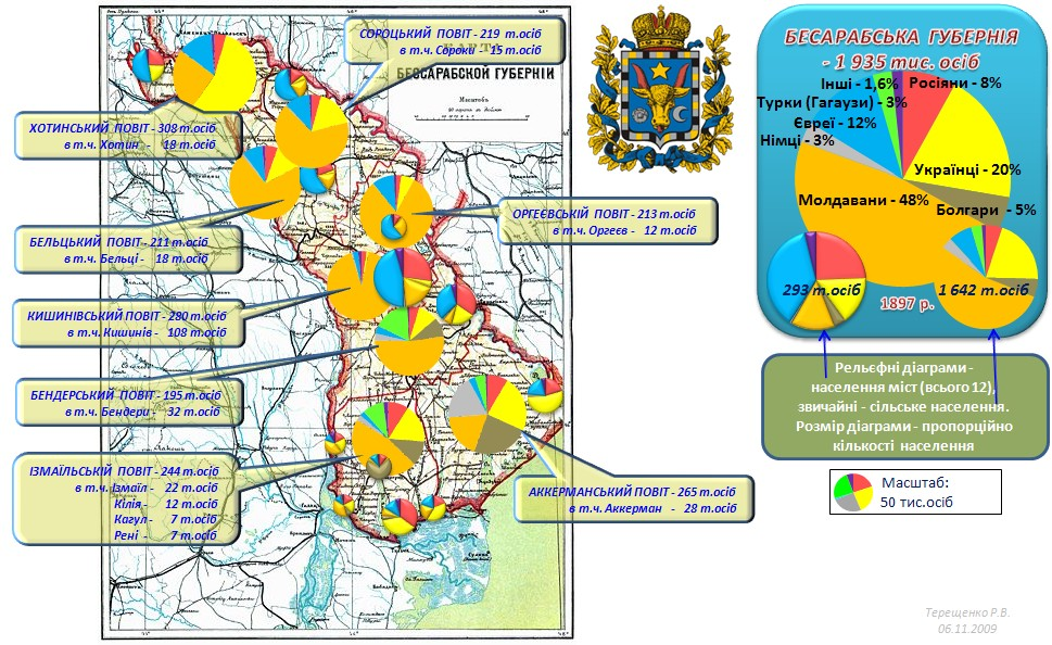 Ethnical map of Bessarabi Governorate 1897